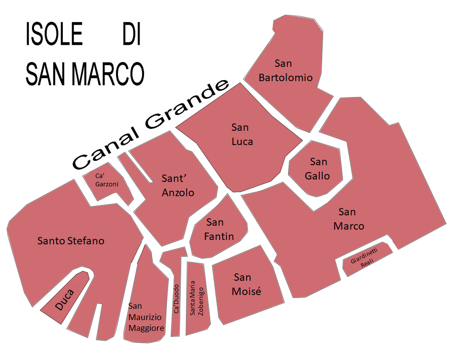 map of islands of san Marco Venice (indicative)